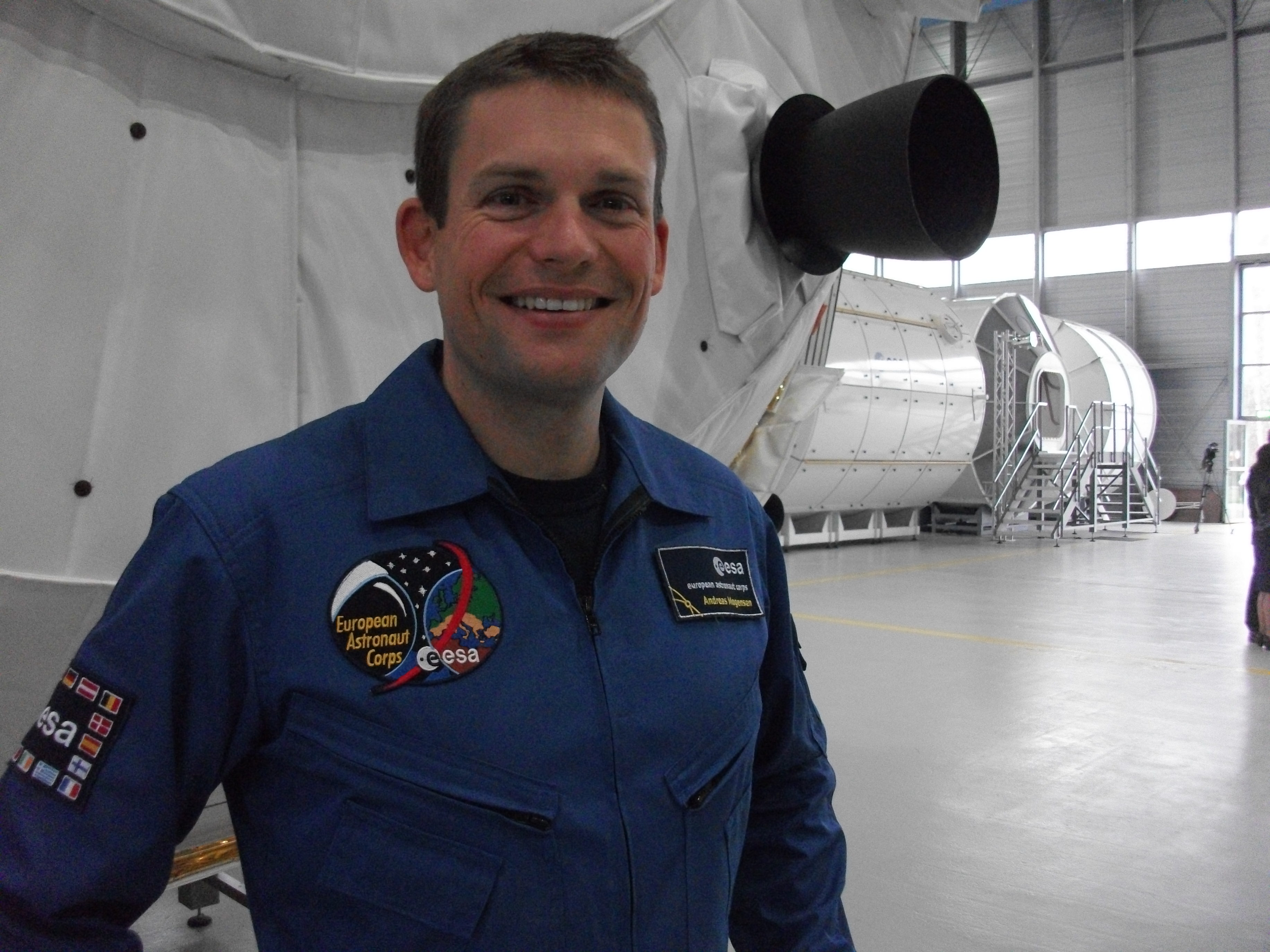 ESA Astronaut Andreas Mogensen at the European Astronaut Centre in Cologne, Germany